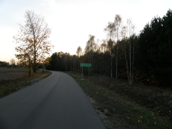 Wieś Grądy Zalewne